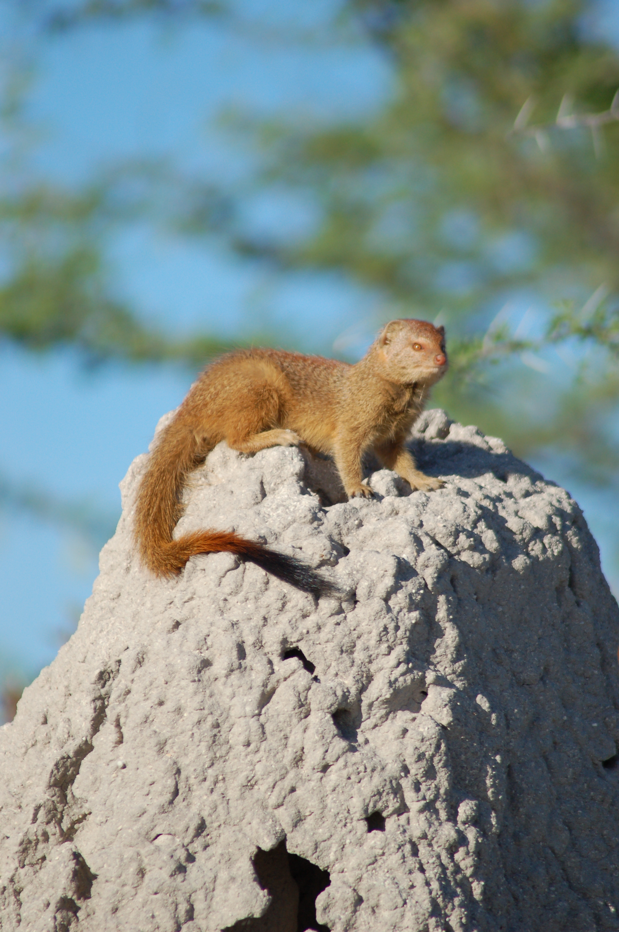 Slender Mongoose (Galerella sanguinea), Etosha National Park, Namibia